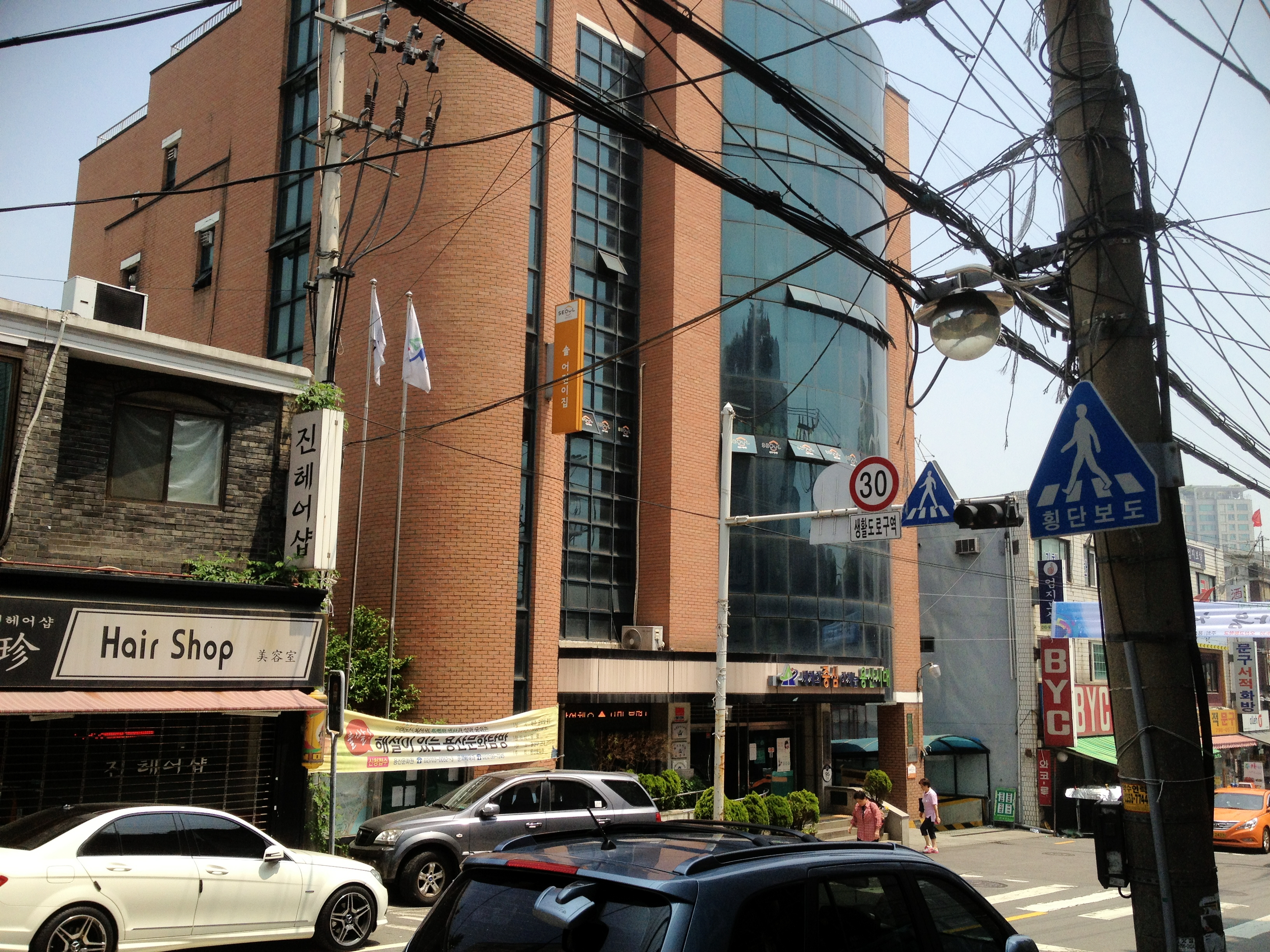 Bogwang-dong Comunity Service Center(Yongsan-gu)